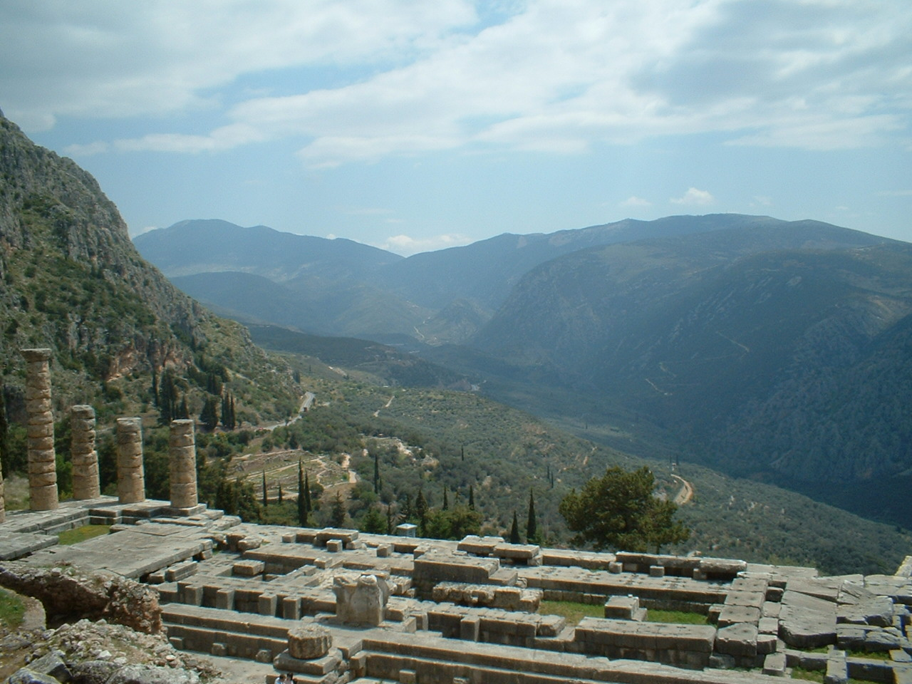 Greece, Delphi's Valley